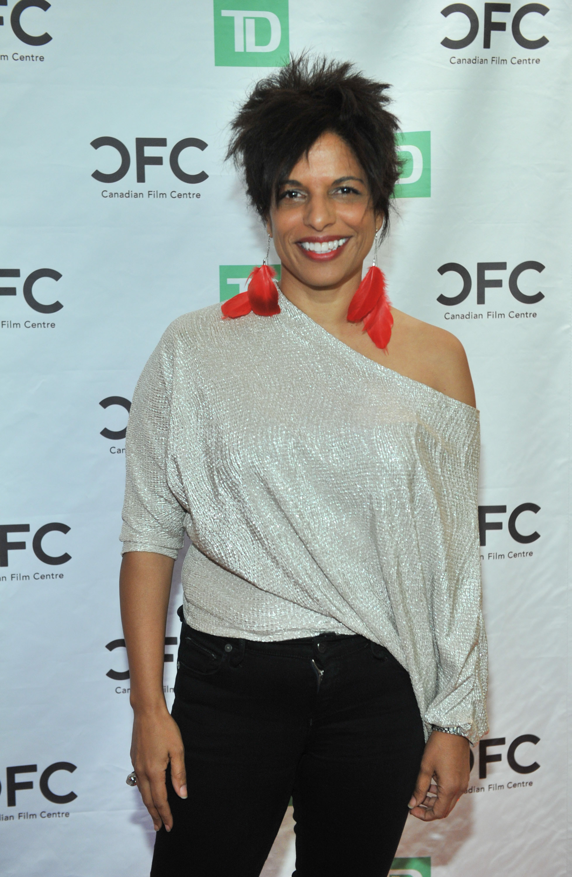 Host Sharon Lewis at the Black History Month event "An Evening with Pam Grier". To learn more, please visit